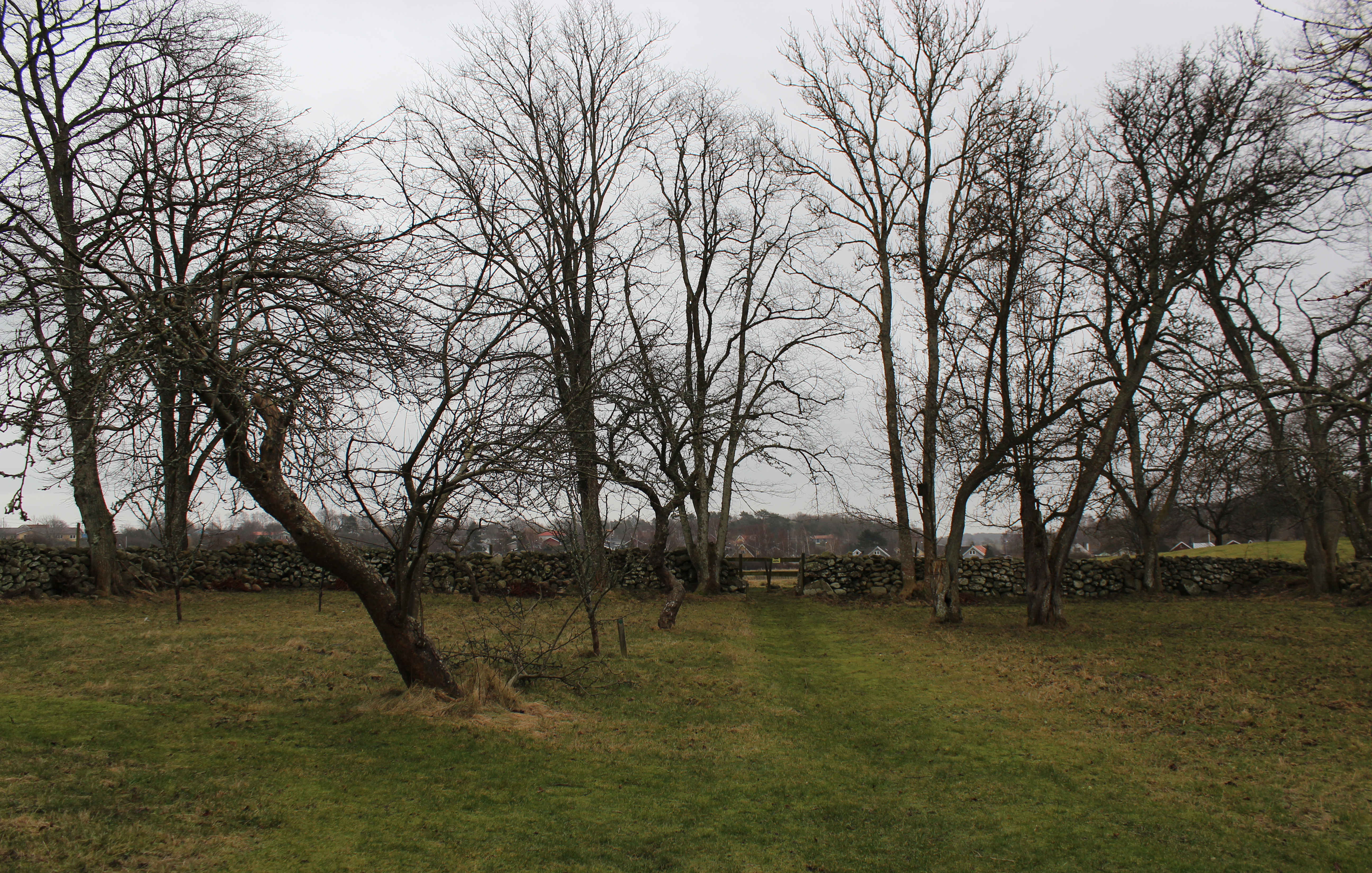 The garden of Mårtagården in Onsala, Halland, Sweden.